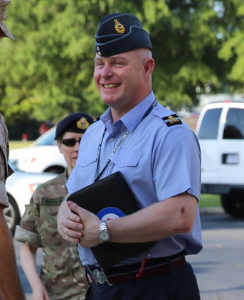 Col. Peter D. Buck and Col. Robert D. Cooper greet United Kingdom Royal Air Force officers Air Commodore Harvey Smyth, Group Capt. Paul Godfrey, and Group Capt. Ian Townsend as they arrive at Headquarters and Headquarters Squadron, June 16. The officers visited Marine Corps Air Station Beaufort to familiarize themselves with the integrated F-35B Lightning II Joint Strike Fighter Program. Buck is the commander of MCAS Beaufort, Cooper is the Marine Aircraft Group 31, Smyth is the lightning force commander, responsible for the entire F-35 program in the Royal Air Force. Godfrey is the current group captain lightning, responsible for everything to do with the F-35 aboard MCAS Beaufort, and Group Capt. Ian Townsend is the incoming group captain lightning.